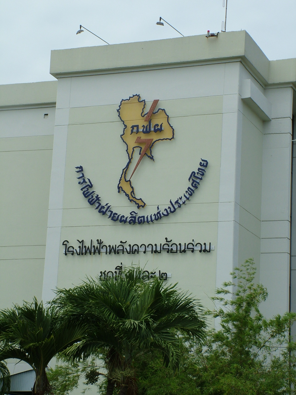 Bangpakong Power Plant (Combined Cycle Power Plant Unit I & II)